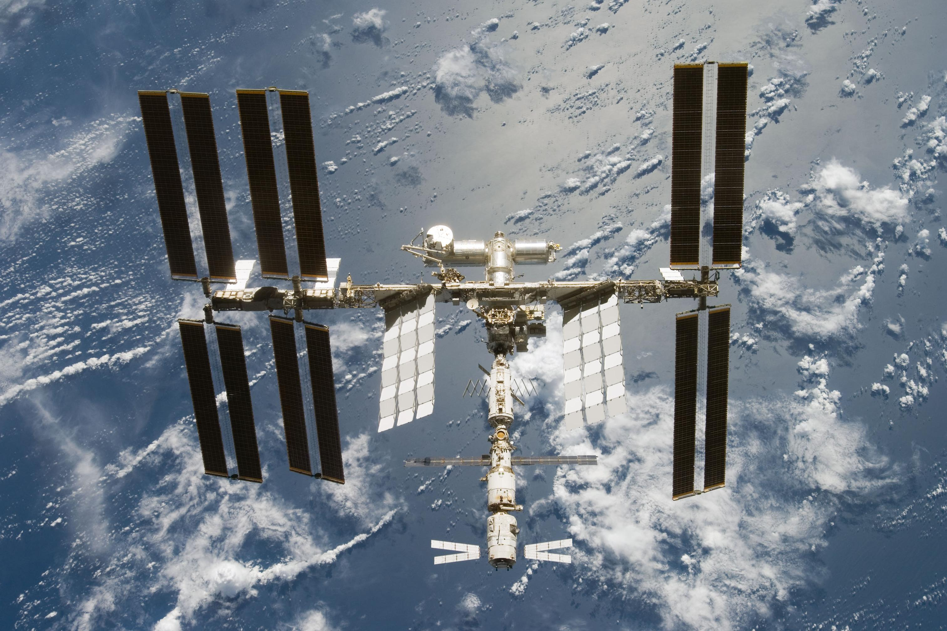 Backdropped by a blue and white part of Earth, the International Space Station is seen from Space Shuttle Discovery as the two spacecraft begin their relative separation. Earlier the STS-124 and Expedition 17 crews concluded almost nine days of cooperative work onboard the shuttle and station. Undocking of the two spacecraft occurred at 6:42 a.m. (CDT) on June 11, 2008.